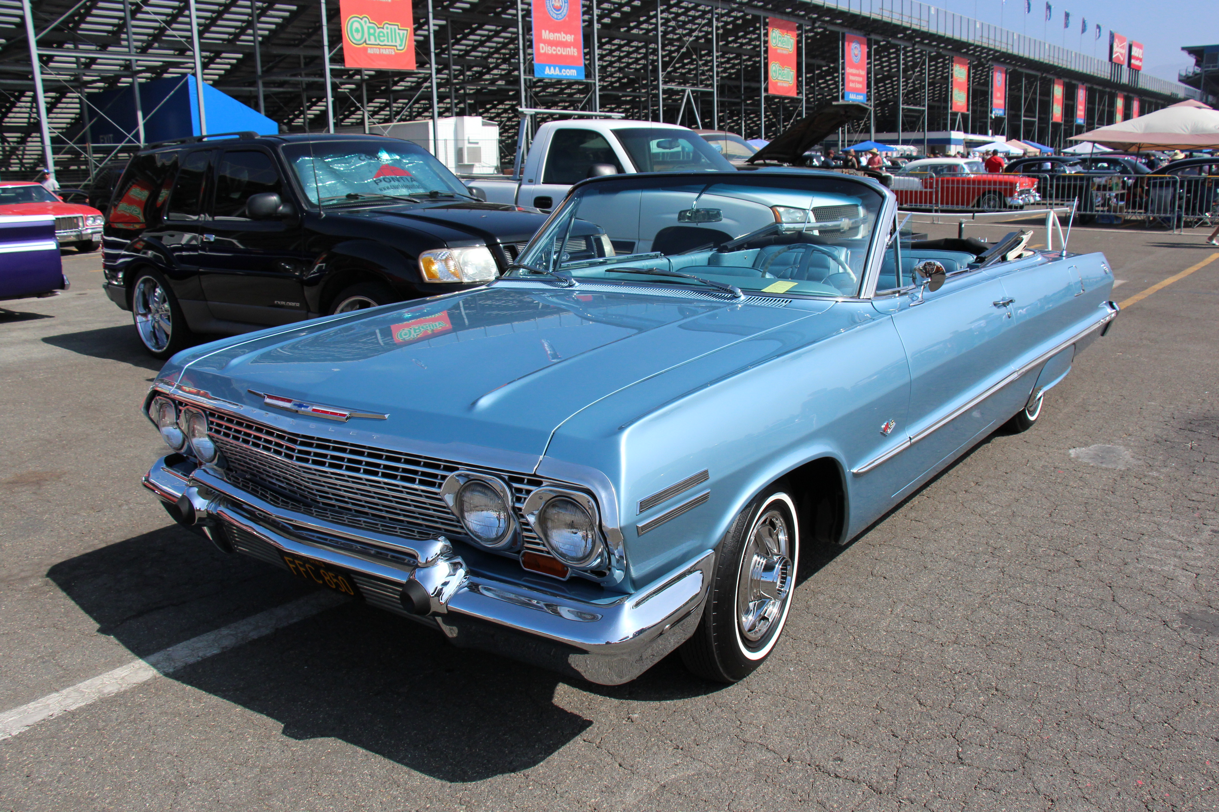 All sheetmetal, except the doors, was changed for 1962, a more conservative looking car. 1963 was just a mild facelift, slightly different grille and bumpers. Base model was still the Biscayne, mid spec: Bel Air and top the Impala with triple round tail lights (double on Biscayne and Bel Air). Super Sport option . Available in Sedan, 2 and 4 door Hardtops, Coupe and Wagon. Chevrolets were also produced in Australia by General Motors using modified American bodies from 1926-68. Engines; 235 6 cyl, 283, 327 and 409 V8s